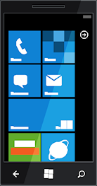 drawing of a Windows Phone 7 device, with mock-up icons.